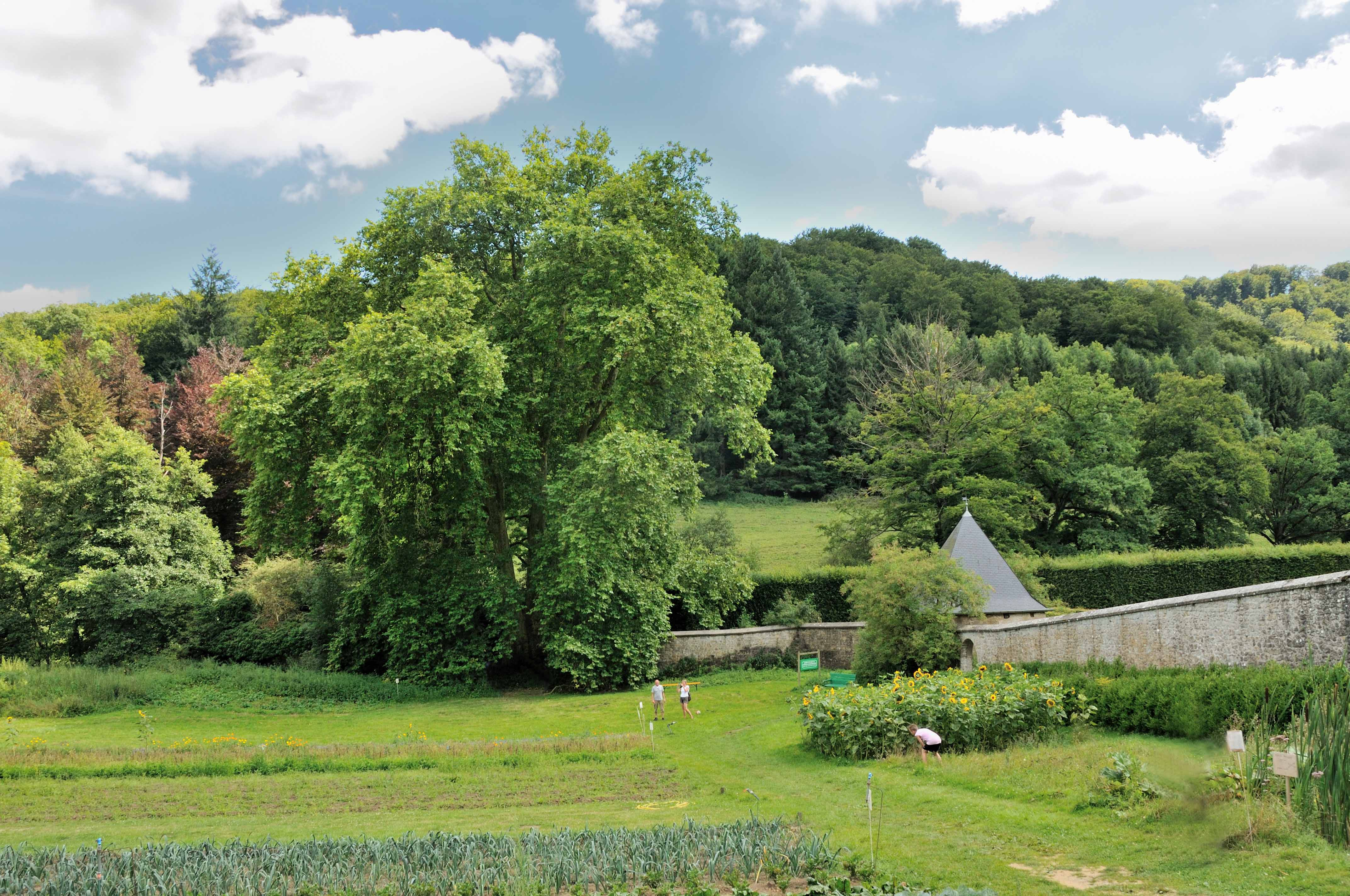 Luxembourg, Ansembourg: Remarkable plane tree (Platanus x hispanica), located close to the wall (to the right) surrounding the park of Ansembourg Castle. The plane tree is listed as 'monument national'.